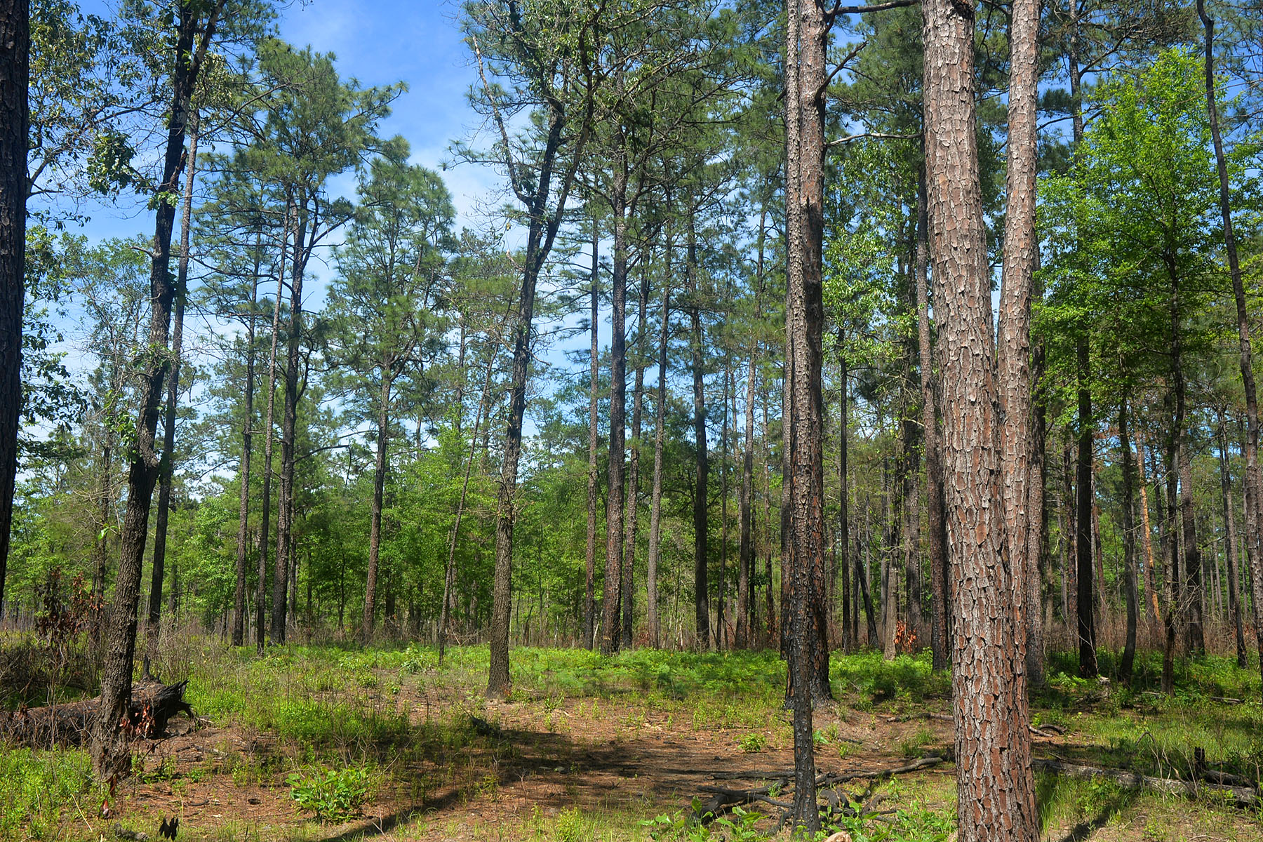 Uplands where longleaf pine (Pinus palustris) and shortleaf pine (Pinus echinata) dominate the habitat and periodic fires maintain a clear understory. Big Thicket National Preserve, Turkey Creek Unit, Tyler Co. Texas; 1 May 2020